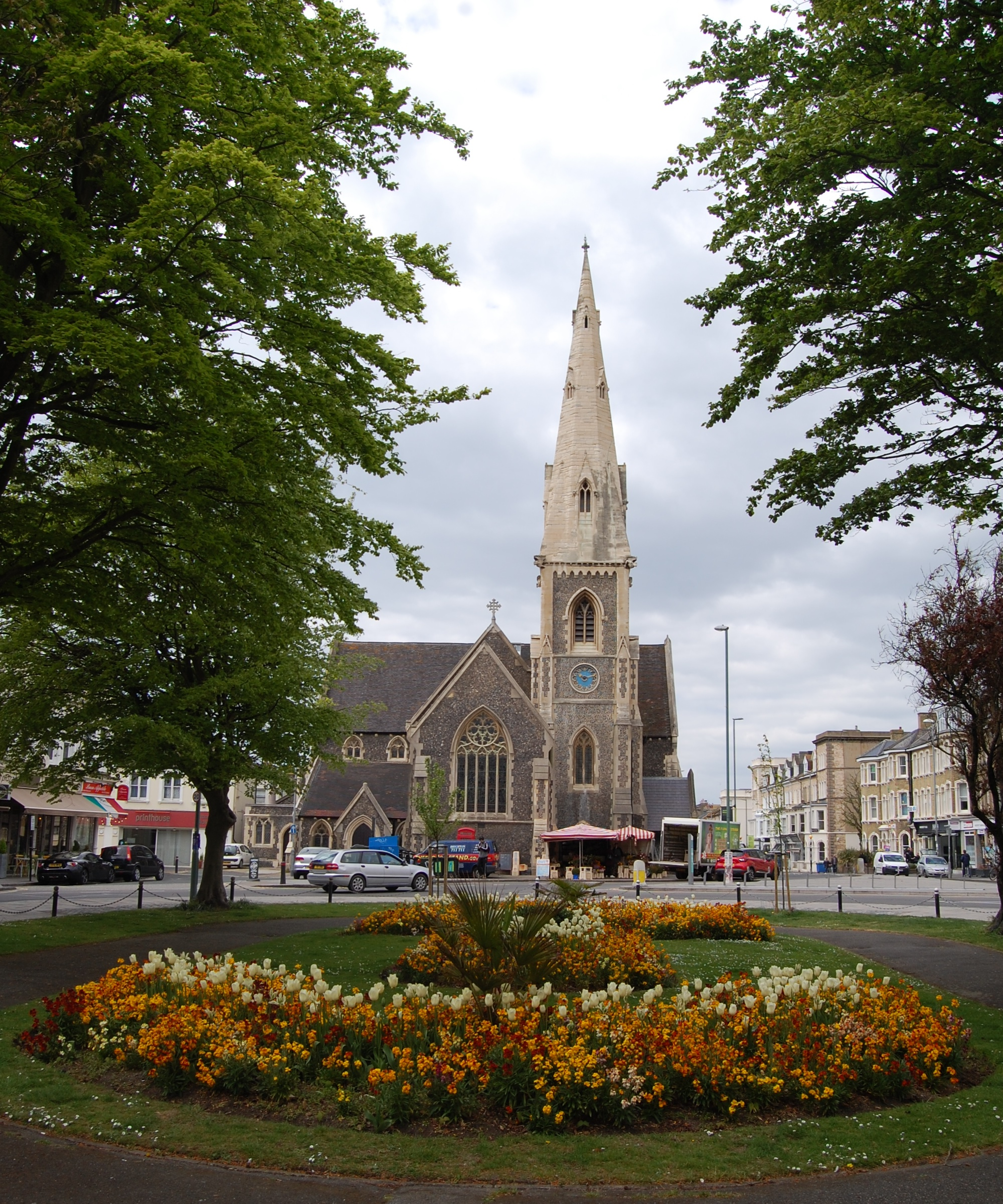 St John the Baptist's Church, Church Road, Hove, Brighton, City of Brighton and Hove, England.